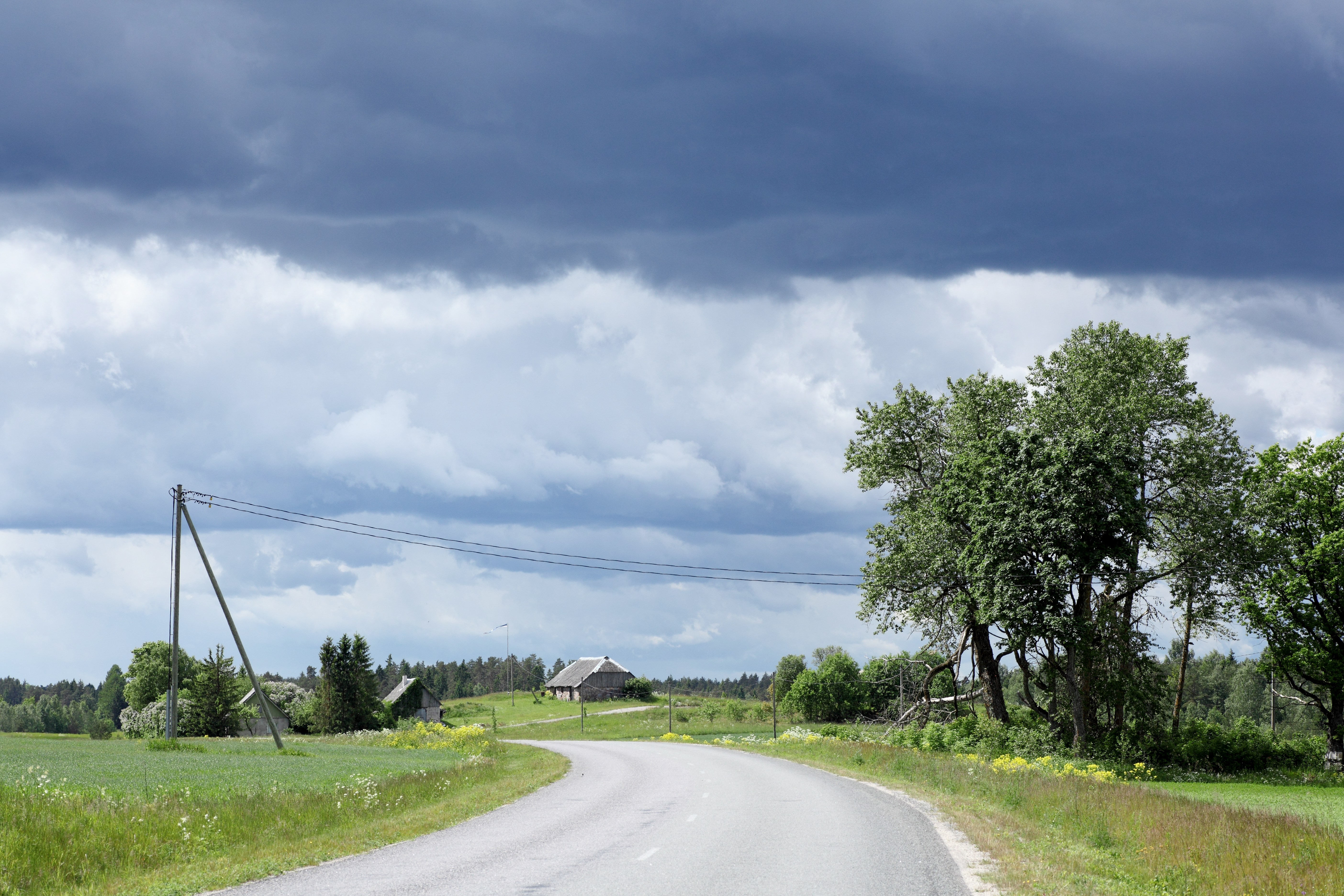 Lehtmetsa Village in Järva County, Estonia.